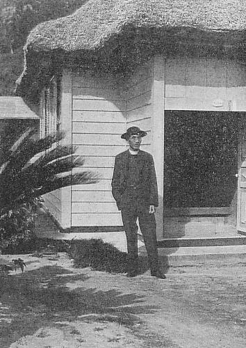 Oubeikei-Tomin(Inhabitants of American-European Origins in Ogasawara Islands) circa 1930